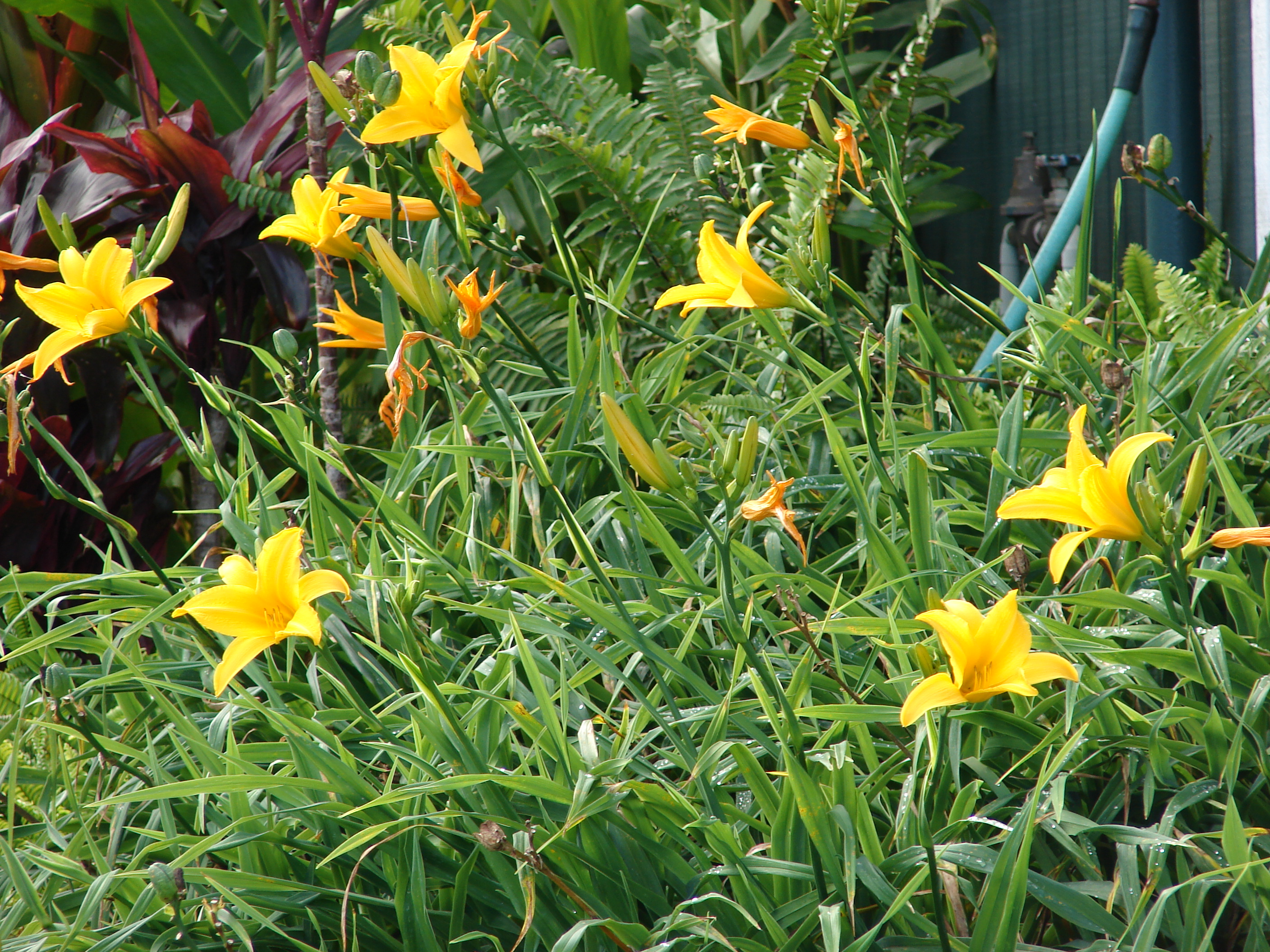 Hemerocallis sp. (flowering habit). Location: Maui, Pukalani